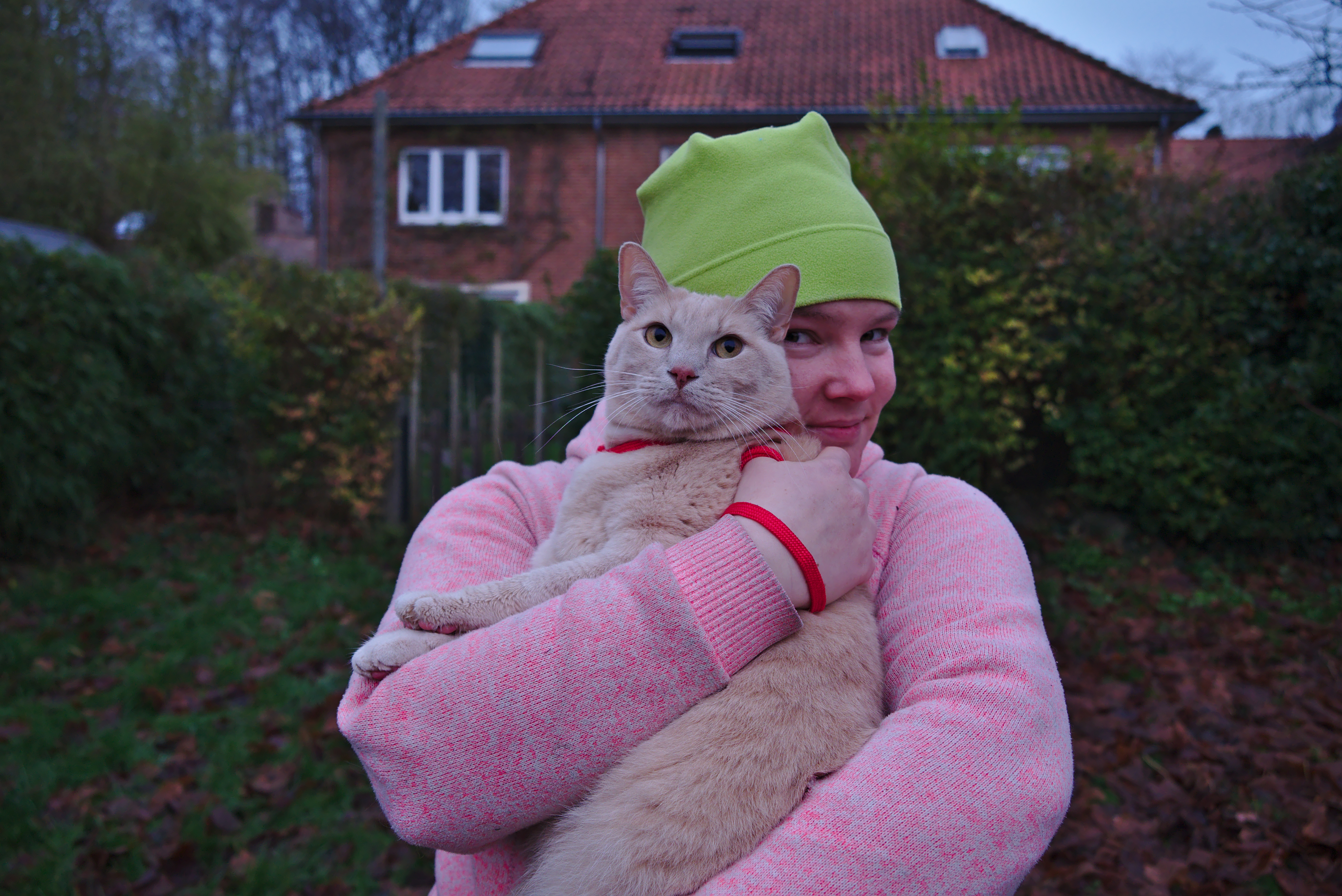 Cat in a harness being held by a pink human in Auderghem, Belgium